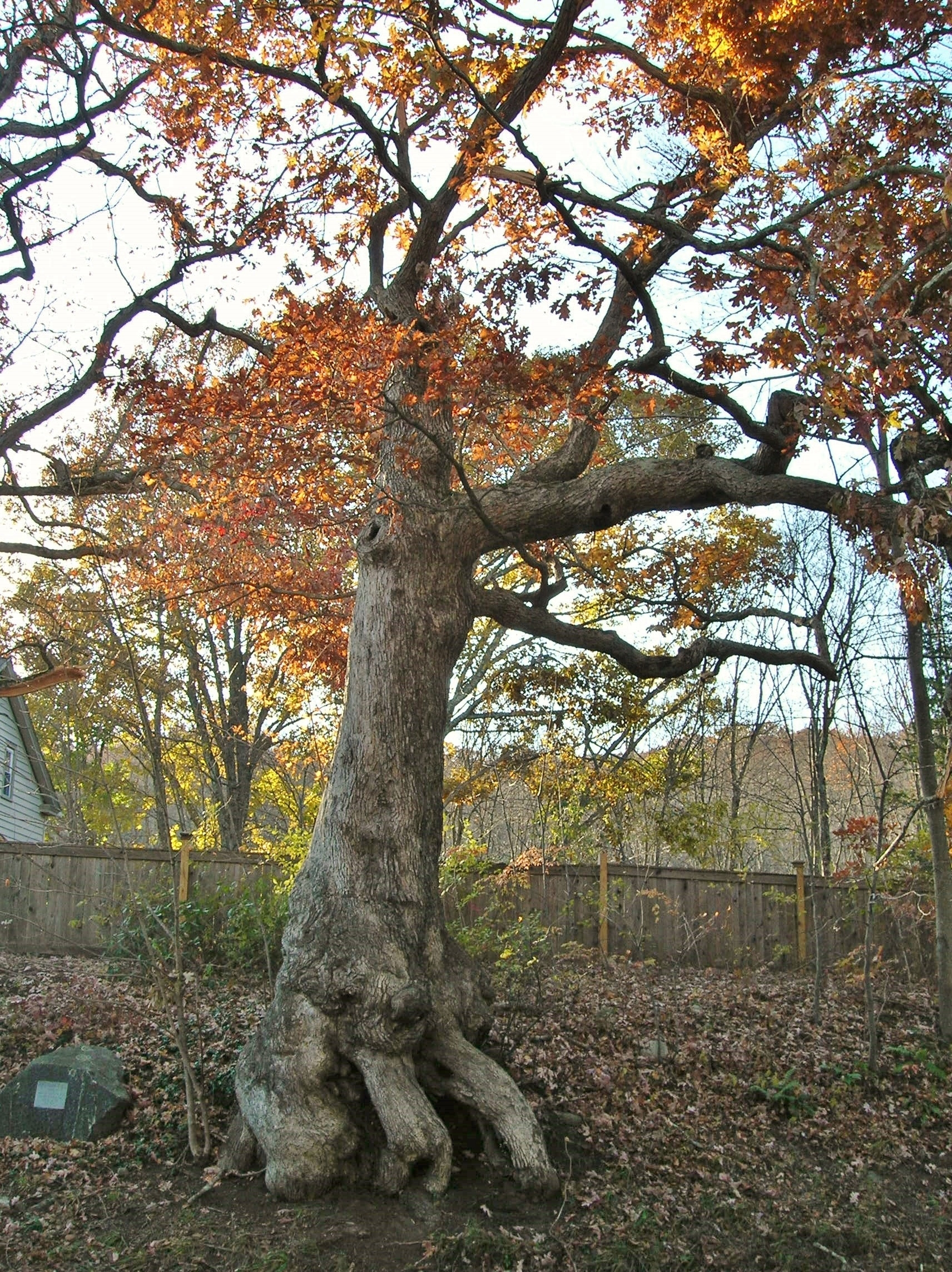 Photo of a white oak tree known as the Peaceable Oak, located in Bristol, Connecticut. Photo taken November 8, 2011.